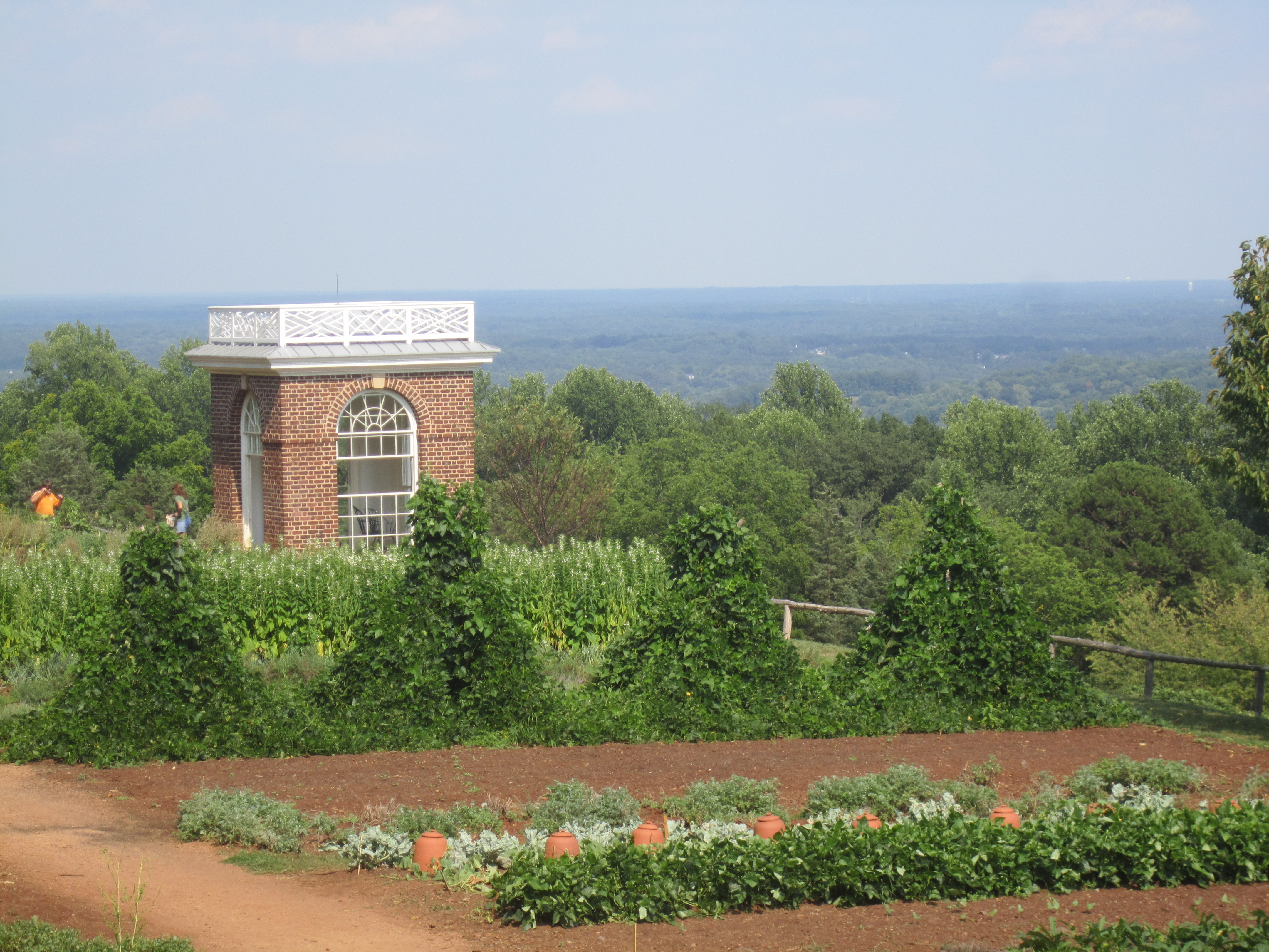 I took photo with Canon camera outside Monticello in Charlottesville, VA.